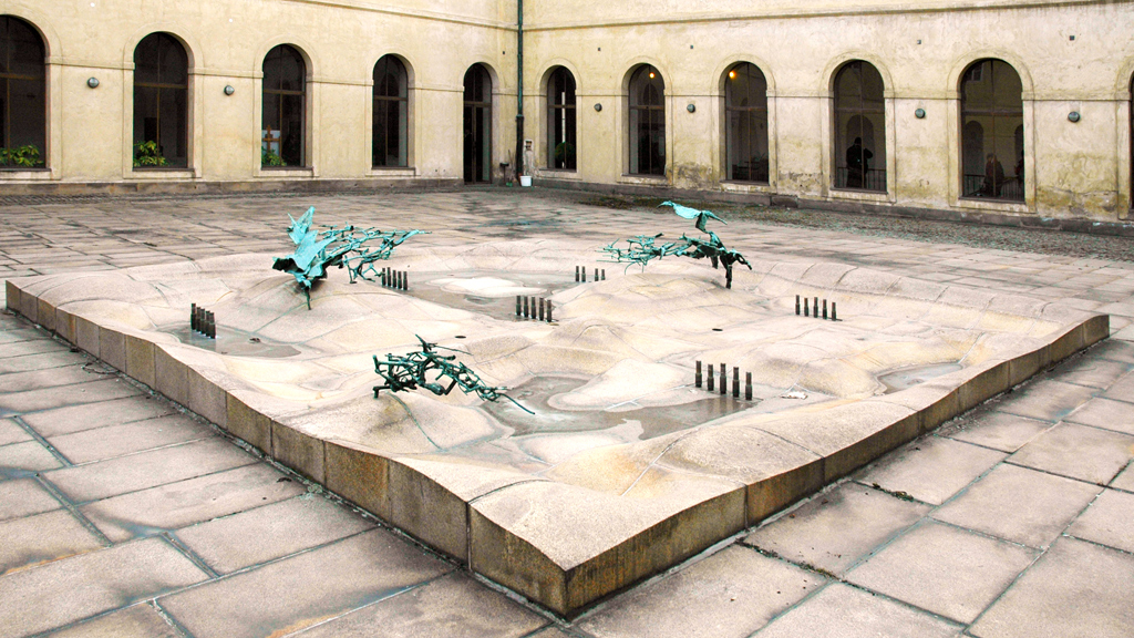 Vladimír Janoušek, Czech landscape, fountain, Prague castle